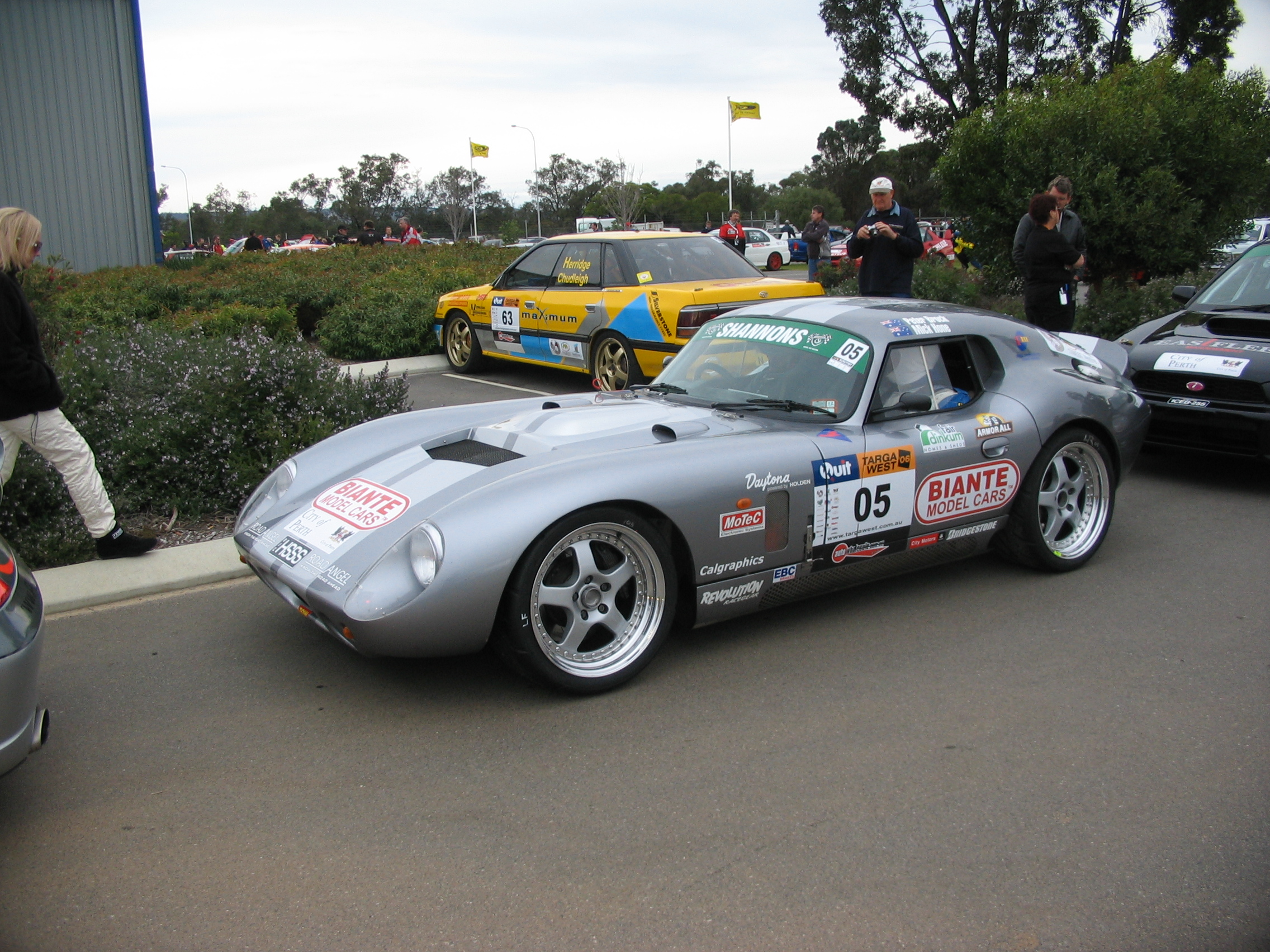 Peter Brock's Daytona Coupe, taken the day before he died. Photo Public Domain.